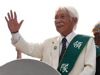 Koo KuanminBân-lâm-gú: Koo Khuan-bín.中文（台灣）: 辜寬敏。